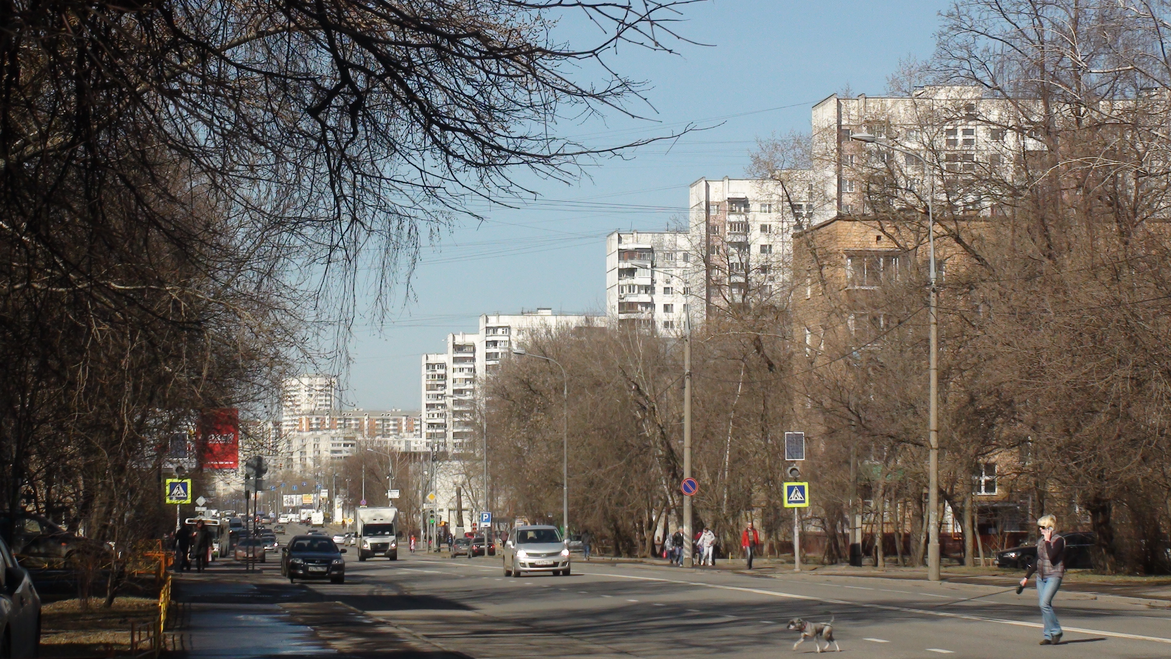 Москва Бабушкинский район улица Менжинского